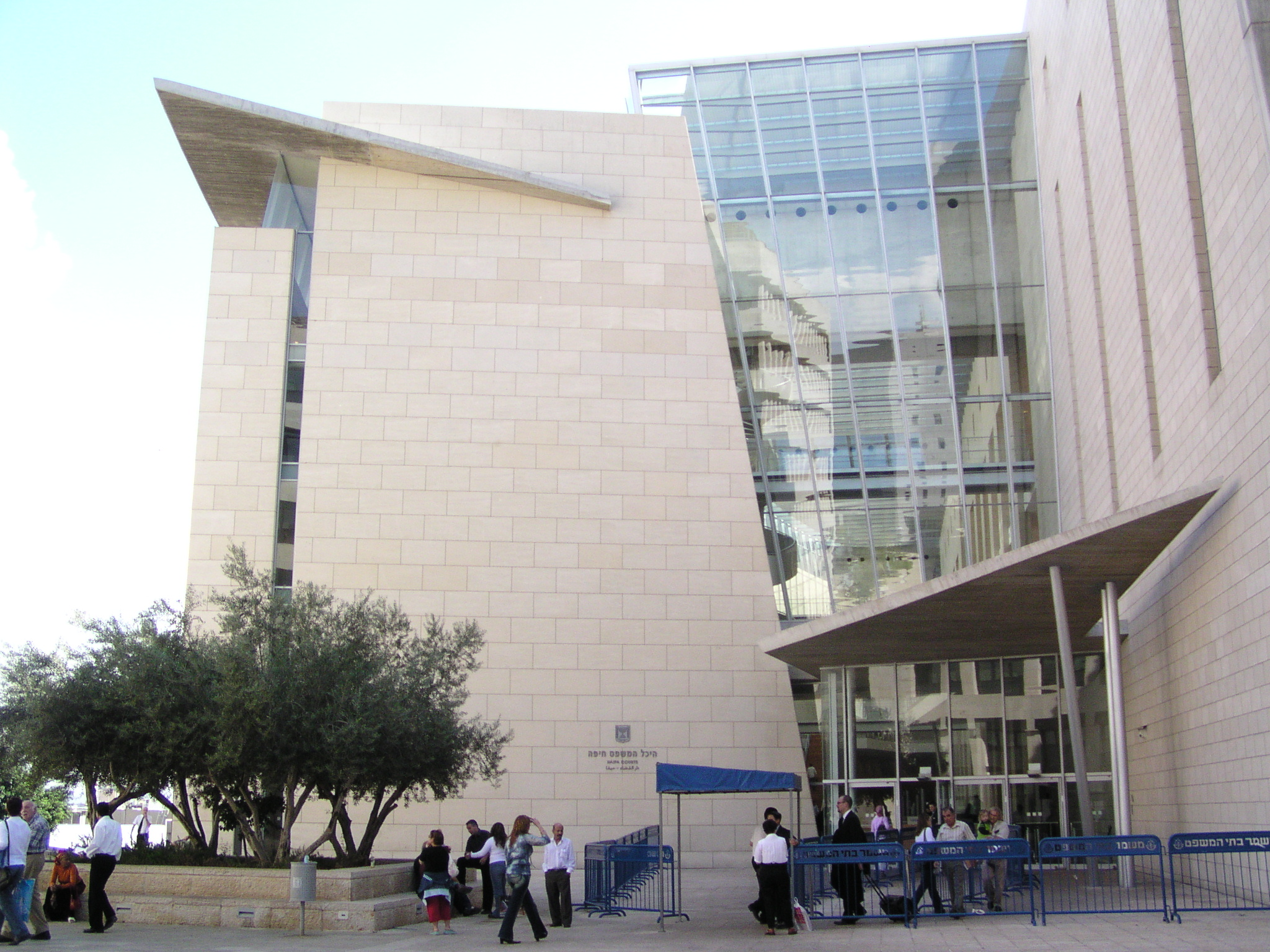 The Courts Hall of Haifa, Israel.